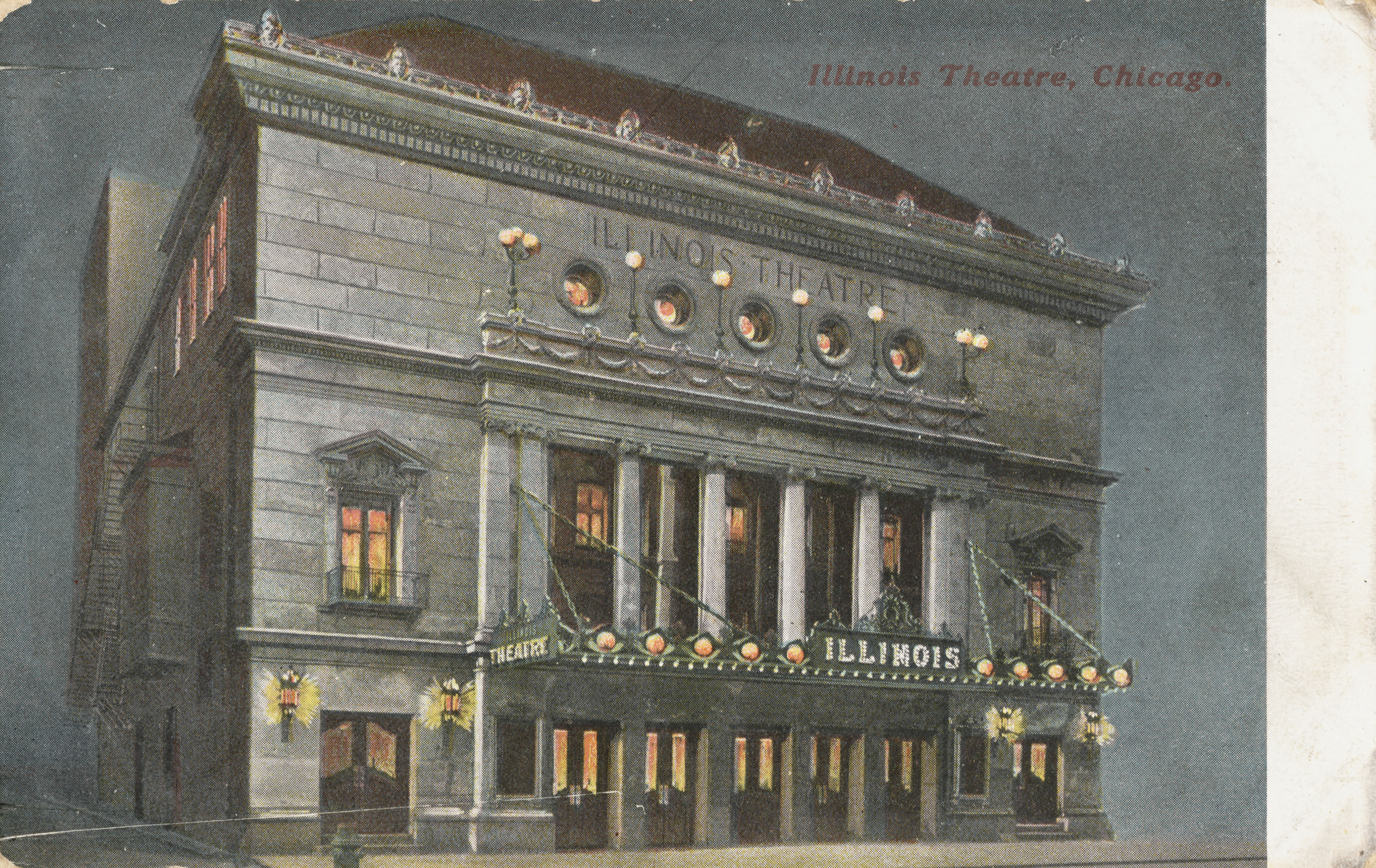 From the University of Maryland Digital Collections website: "A front view at night of the Illinois Theatre, Chicago, Illinois, circa 1907-1909. Postmark date: December 13, 1909; Postcard number: 62."